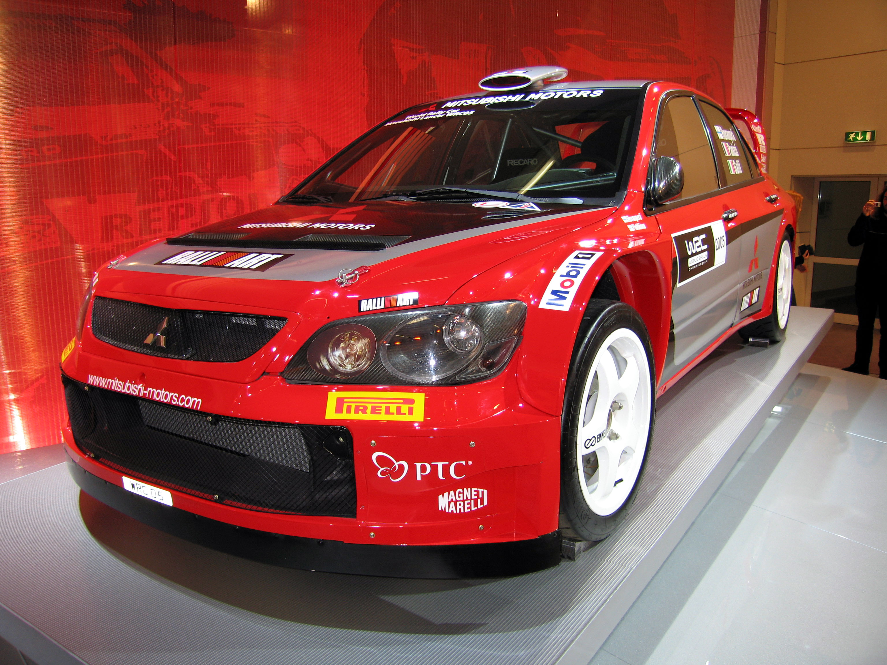 Mitsubishi Lancer Evolution IX WRC2006 at the IAA 2005